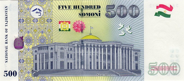 Tajikistani somoni Тоҷикӣ: Сомонӣ